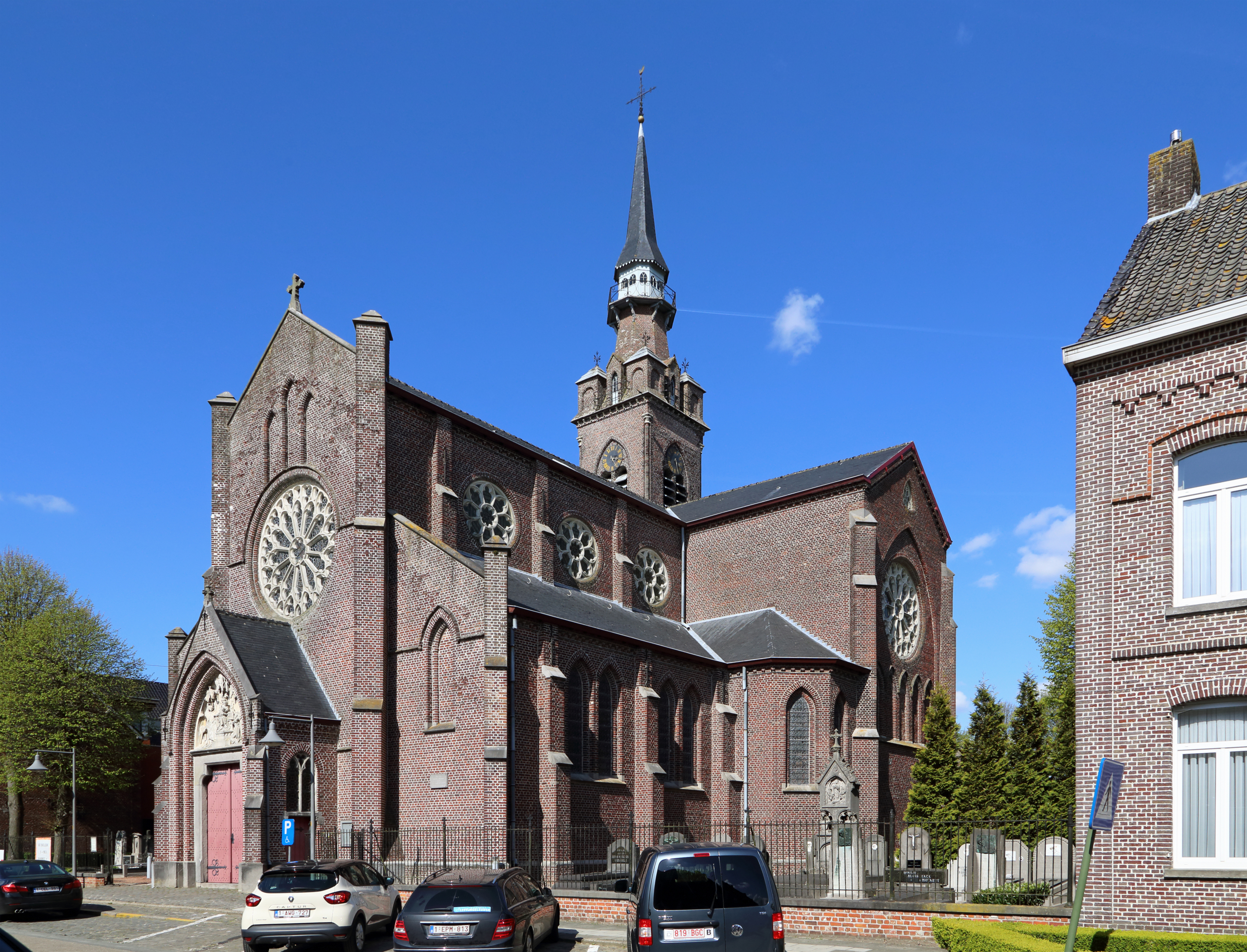 Doomkerke (municipality of Ruiselede, province of West Flanders, Belgium): St Charles Borromeus church